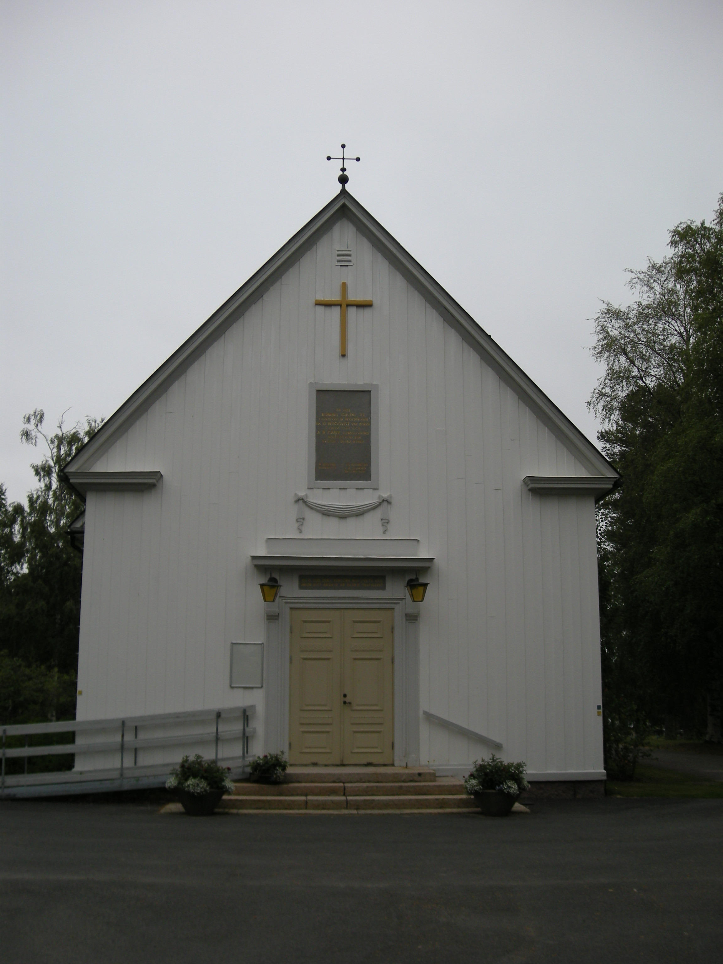 The Gunnarsbyn Church.